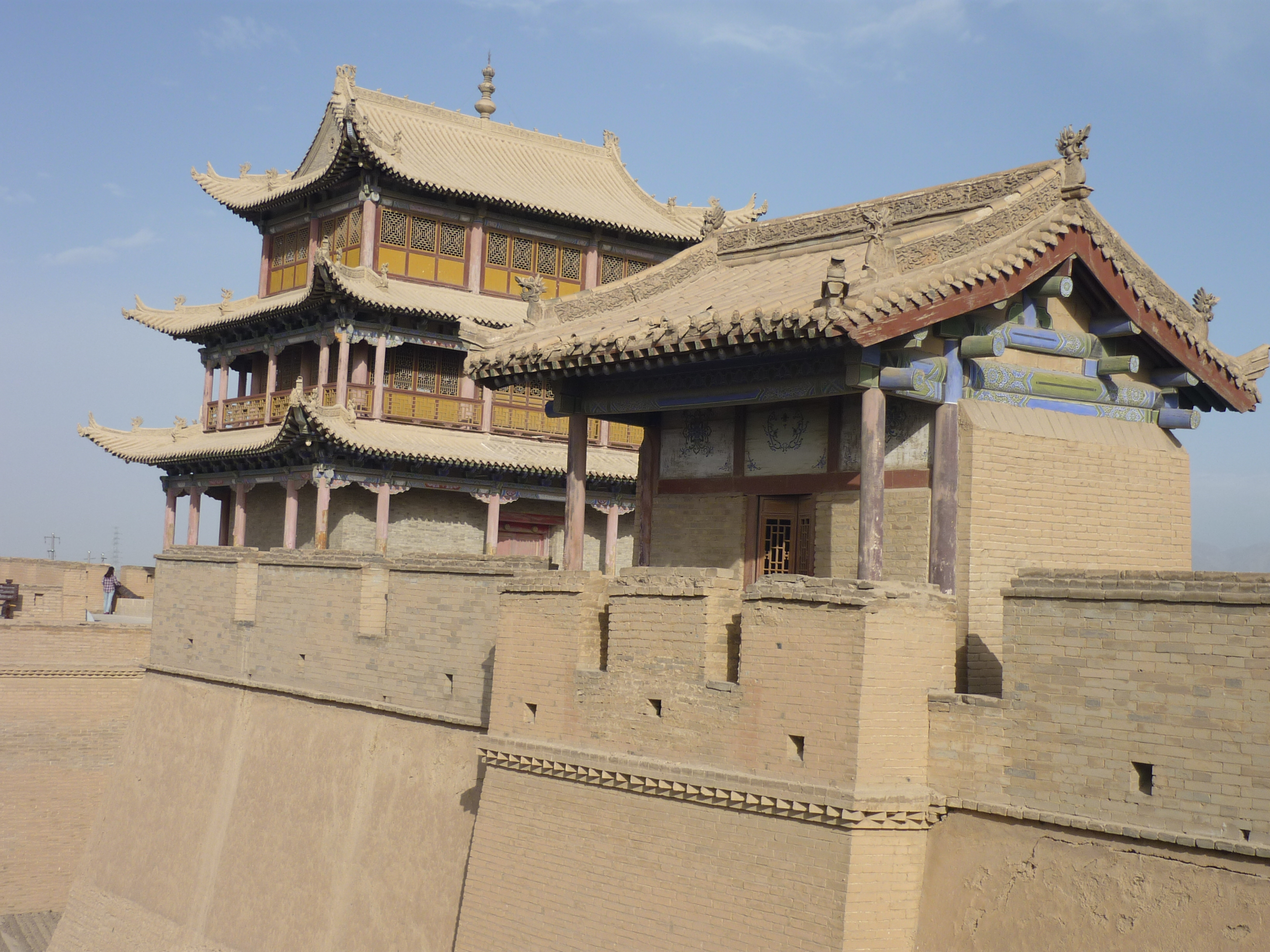 Jiayu Pass (嘉峪关 Jiāyù Guān; literally "Excellent Valley Pass") is the first pass at the west end of the Great Wall of China, near the city of Jiayuguan in Gansu province.